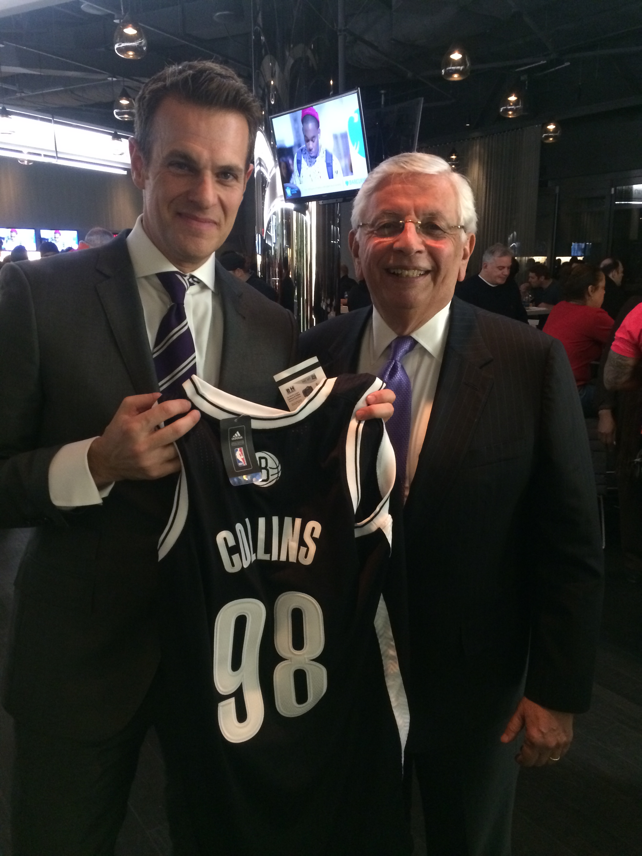 Jason Collins plays in first game as NBA's first openly gay player. Nets v. Lakers, February 23, 2014